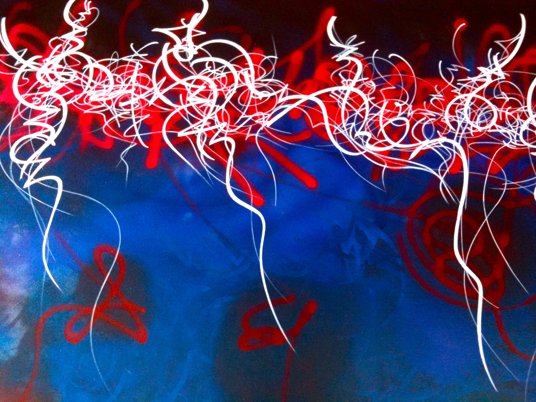 Arabesque graffiti , abstract arabesque post graffiti by Matox